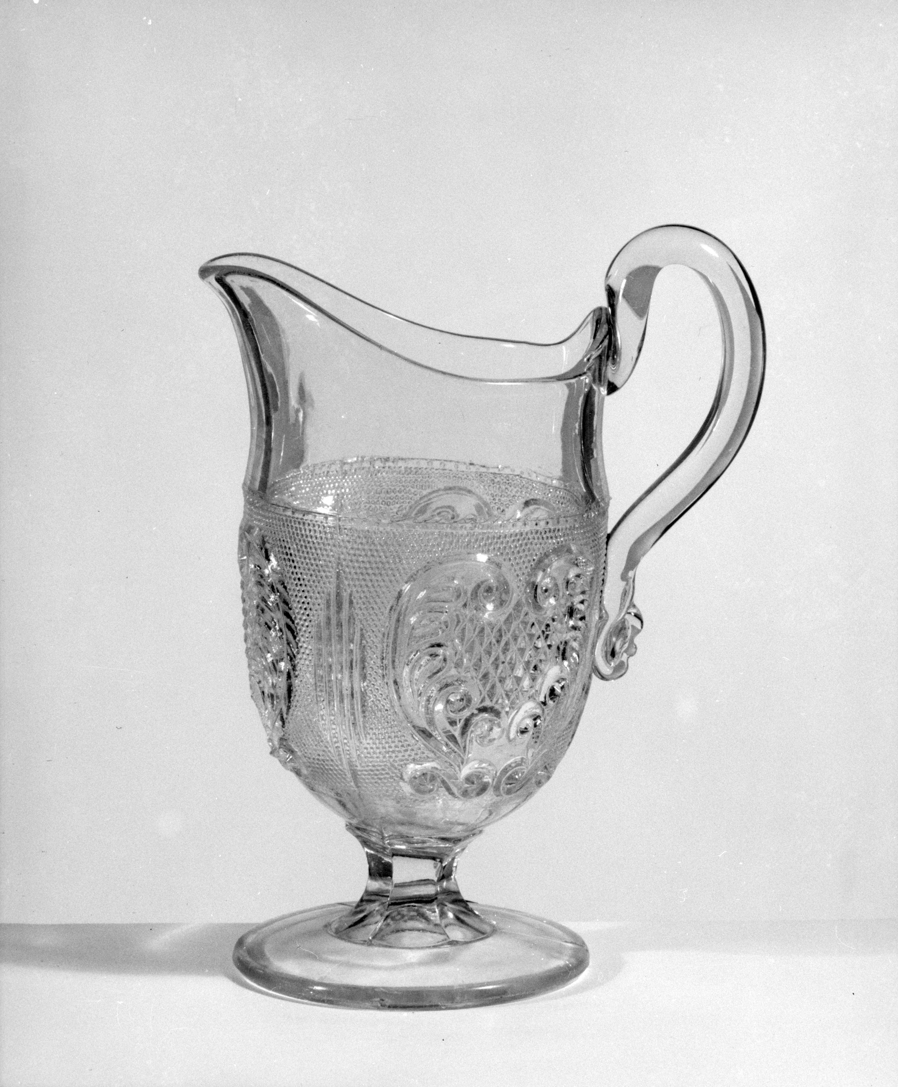 American; Cream pot; Glass